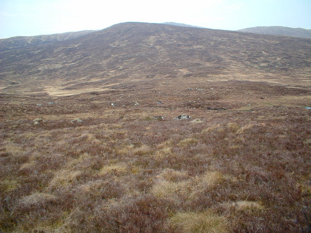 Moorland across the Allt a' Choire Odhaire Bhig.